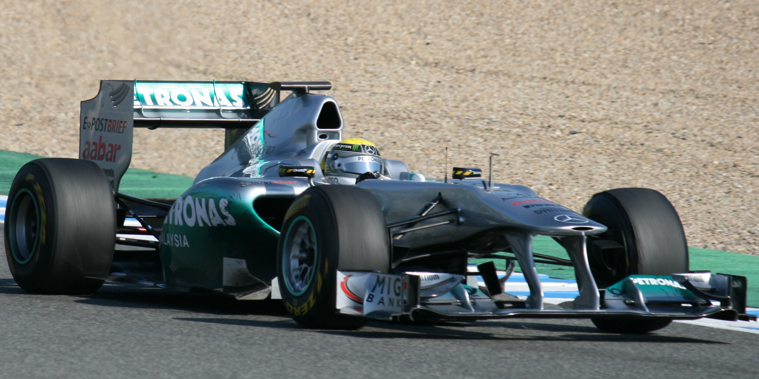 Nico Rosberg testing for Mercedes GP at Jerez.